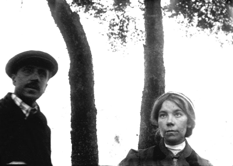 Mikhail Matushin and Elena Guro (before 1913)